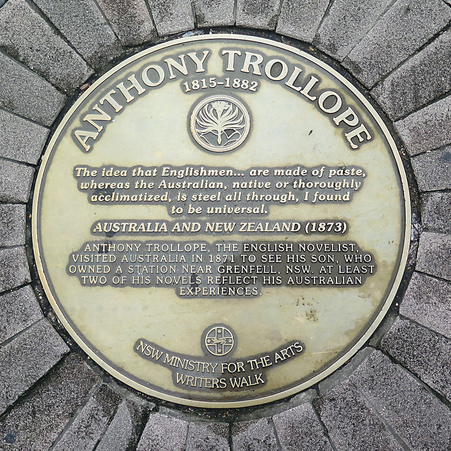 A plaque in the Sydney Writers Walk series at Circular Quay